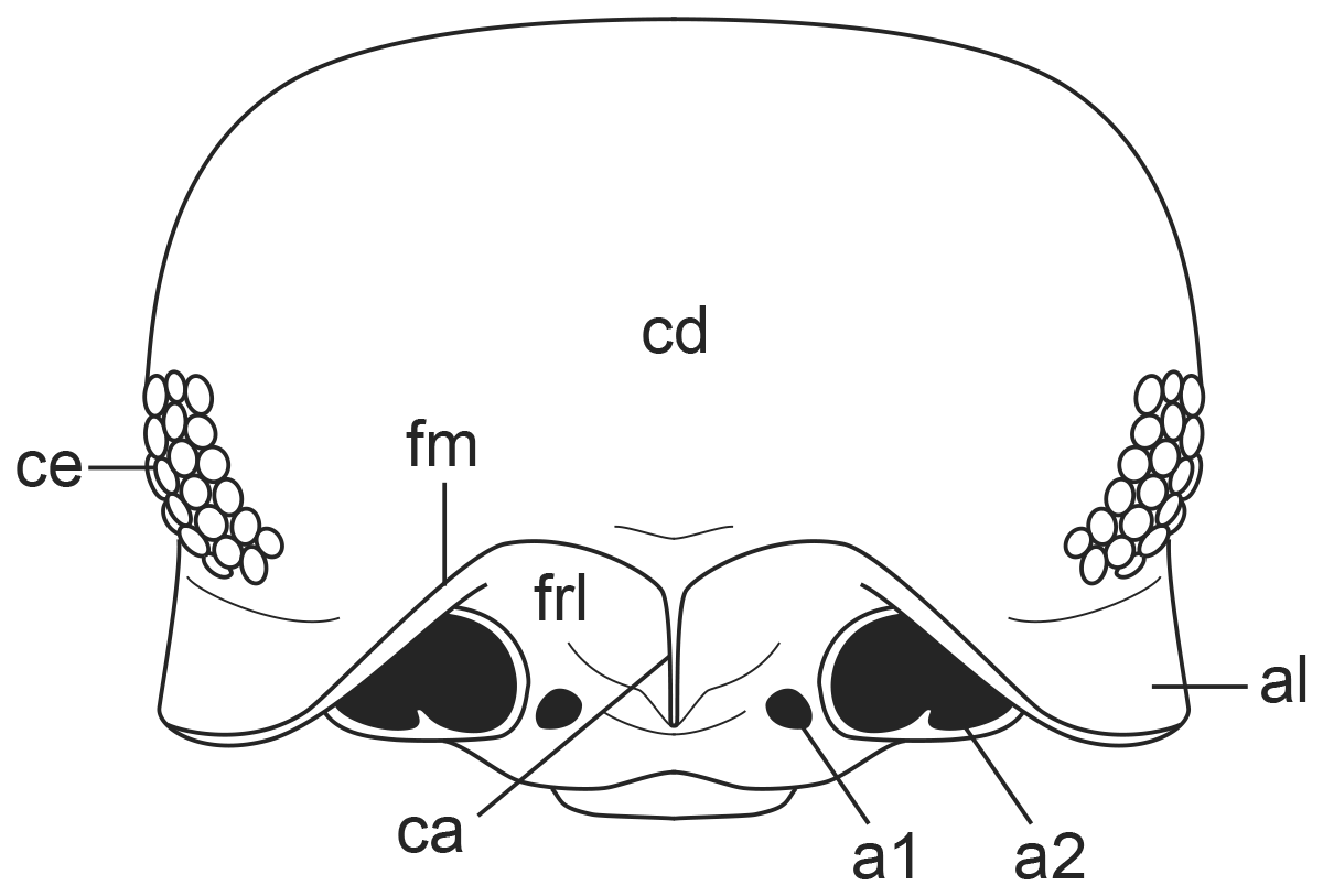 Cylisticus convexus, head, dorsoanterior view, antennae removed.a1 socket of antenna Ia2 socket of antenna IIal anterolateral lobeca carinacd cephalic dorsumce compound eyefm frontal marginfrl frontal lamina)